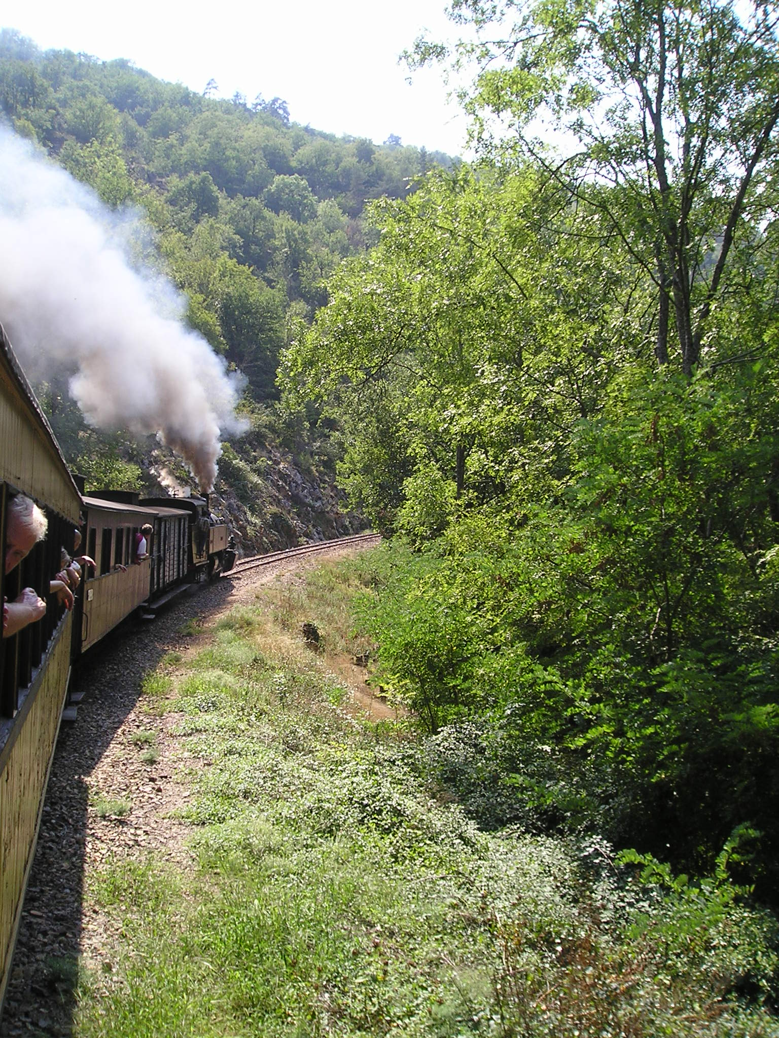 Vivarais touristic train view in action